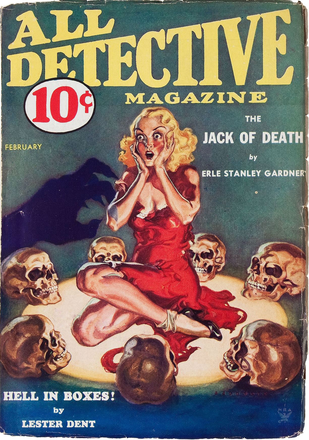 Cover of the pulp magazine All Detective Magazine (February 1934) featuring Jack of Death by Erle Stanley Gardner